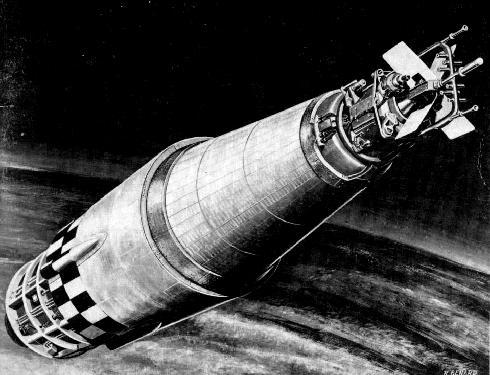 SNAPSHOT nuclear reactor test satellite